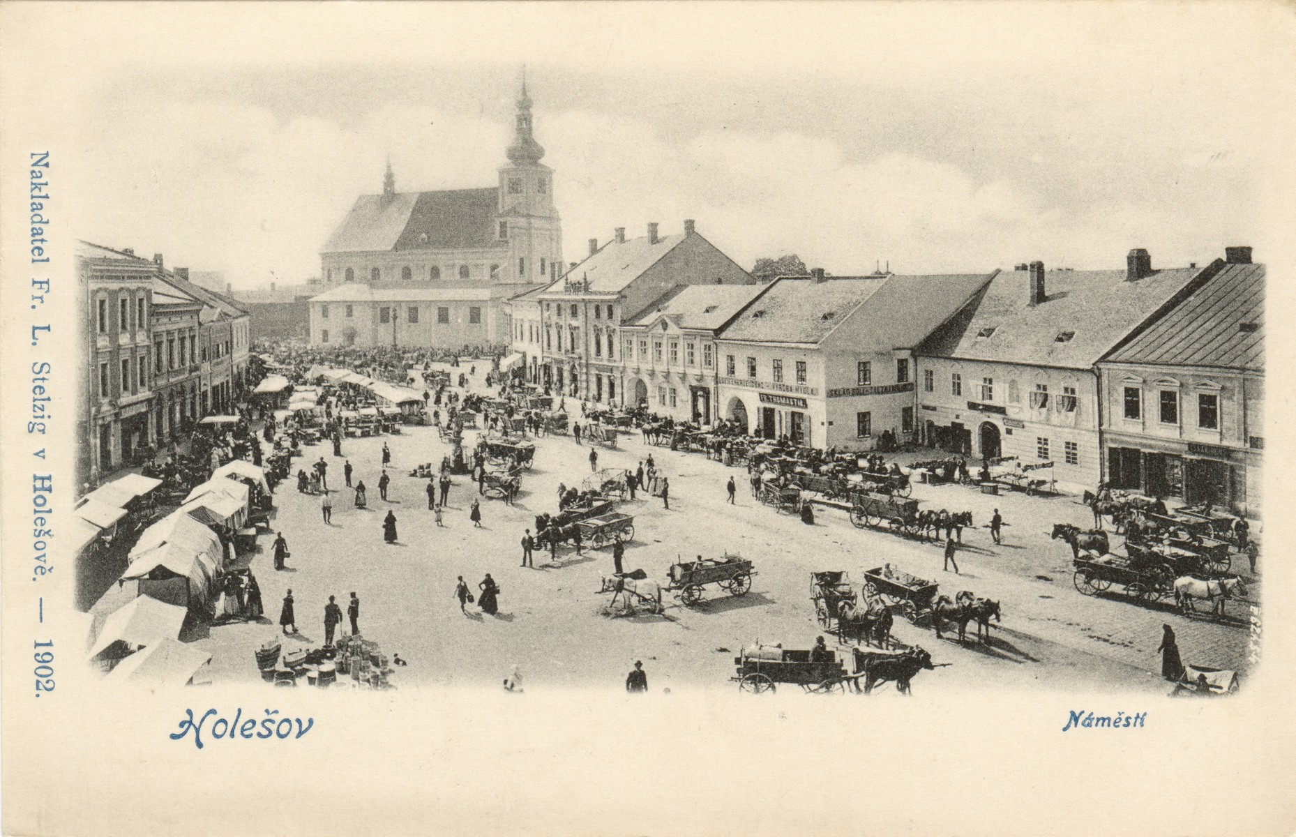 Square in Holešov (now Dr. Edvard Beneš Square), Margraviate of Moravia, Austria-Hungary (now Czech Republic), 1902 postcard.